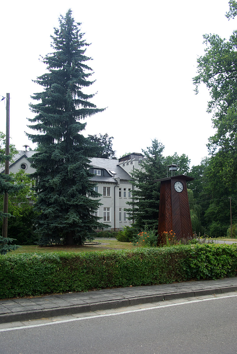 Village centre with clock tower of Klein Loitz, Brandenburg, Germany